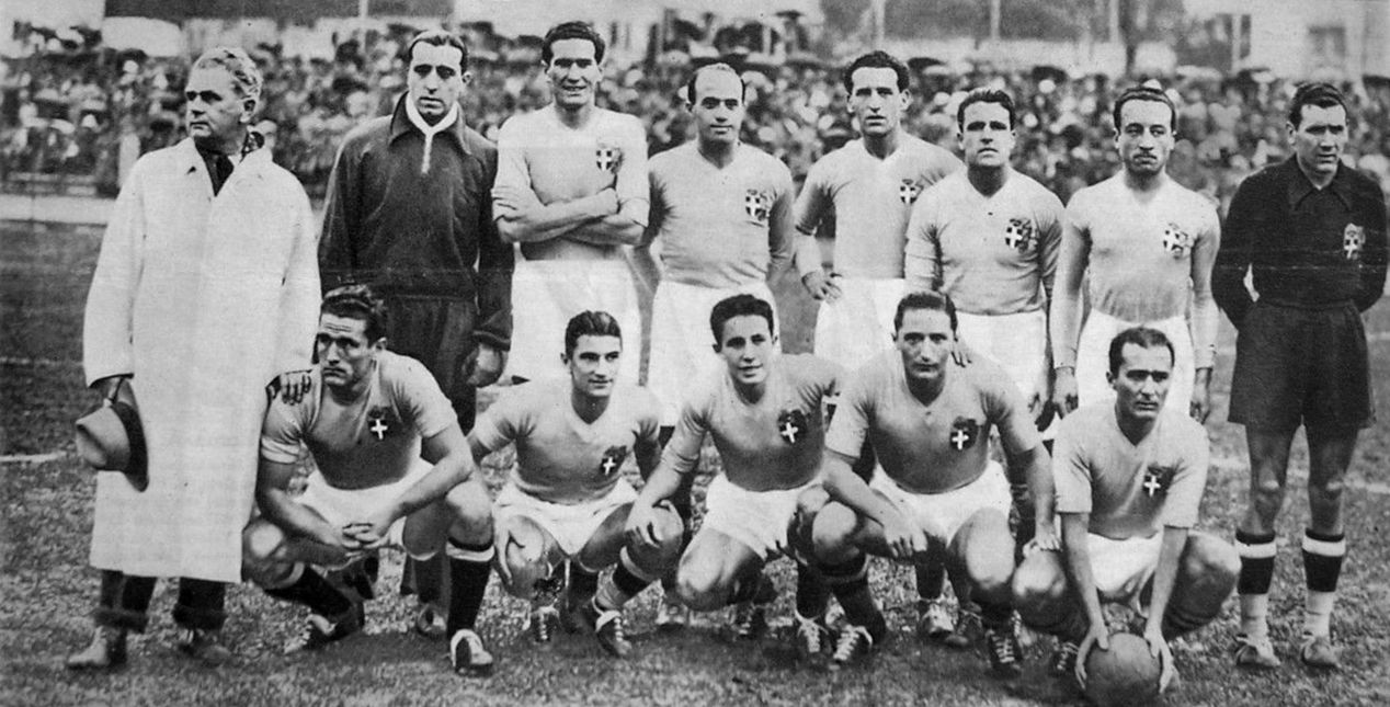 Genoa (Italy), Luigi Ferraris Stadium, December 13, 1936. The line-up of Italy took to the pitch in the victorius friendly match versus Czechoslovakia (2-0). From left to right, standing: V. Pozzo (manager), C. Ceresoli (substitute), G. Varglien II, G. Ferrari, L. Allemandi (captain), P. Pasinati, B. Neri, A. Olivieri; crouched: A. Piccini, G. Colaussi II, L. Marchini, S. Piola, E. Monzeglio.